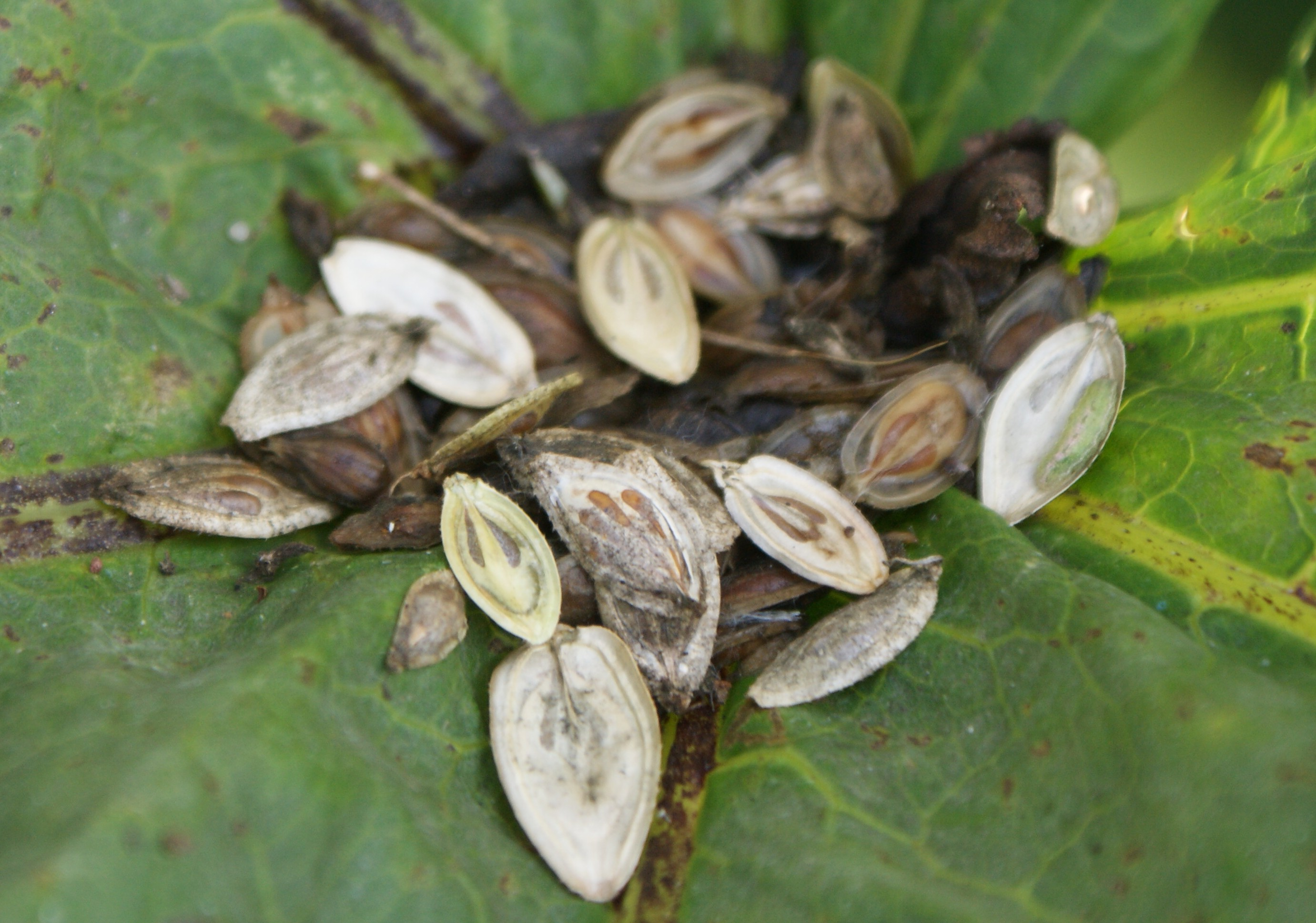 Seeds od Heracleum sosnowskyi